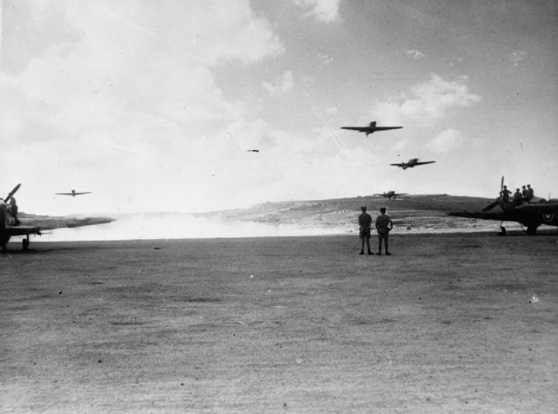 Royal Air Force Operations in Malta, Gibraltar and the Mediterranean, 1940-1945. Hawker Hurricanes of No. 261 Squadron RAF take off from Ta Kali, Malta, to intercept incoming enemy aircraft.